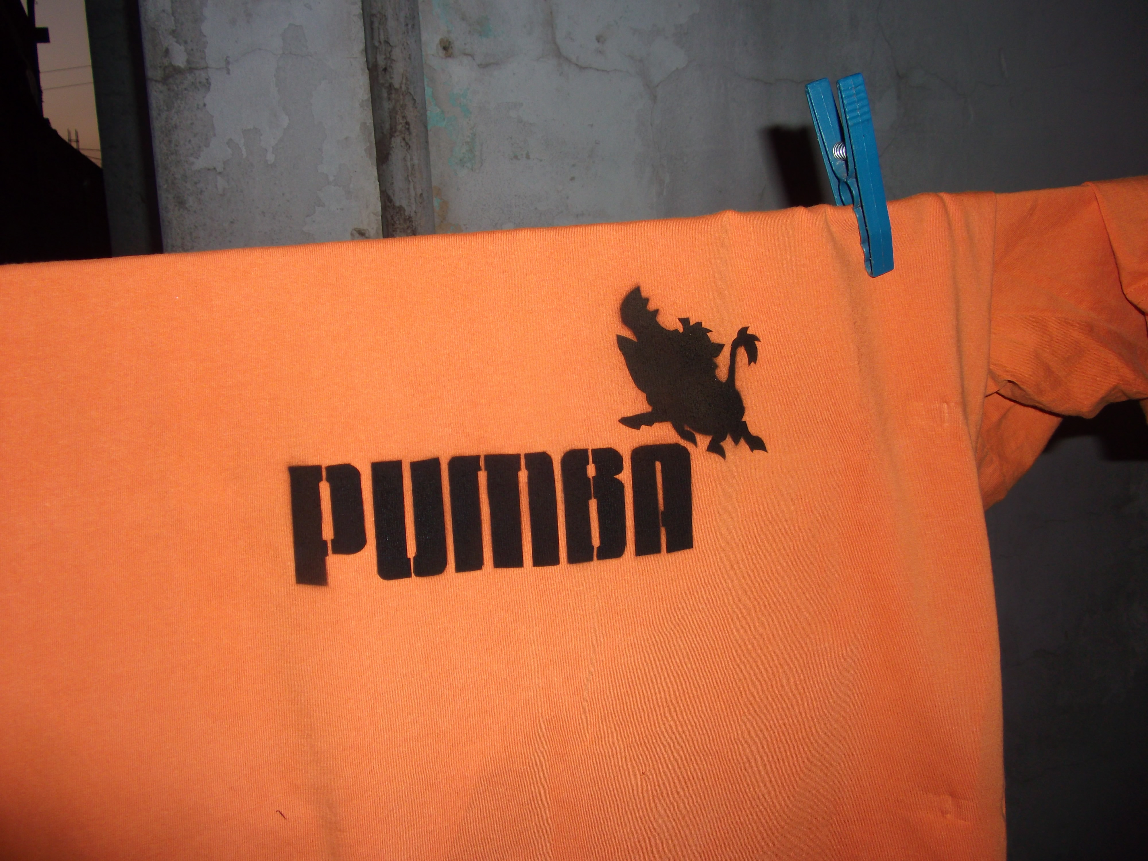 Pumba(Ryan Geraldo)